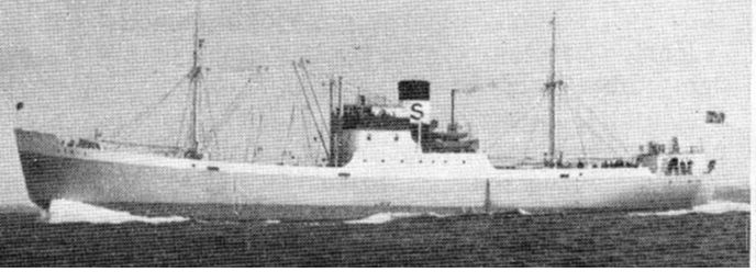 Swedish motor ship and Armed merchantman Warun